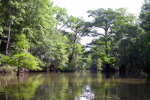 The approach to the Bottle Creek Indian Mounds in the Mobile-Tensaw River Delta.